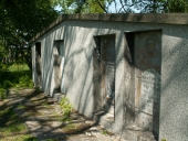 The Matzeivos of the Aleksander Rebbes. The Imrei Menachem ordered the graves for be protected from demolition by constructing the massive block of concrete to encompass the grave stones. Aleksanderow Lodzki, Poland.